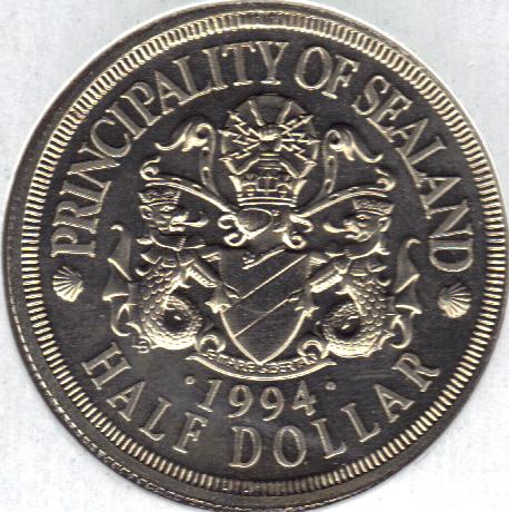 This is the sealand half dollar